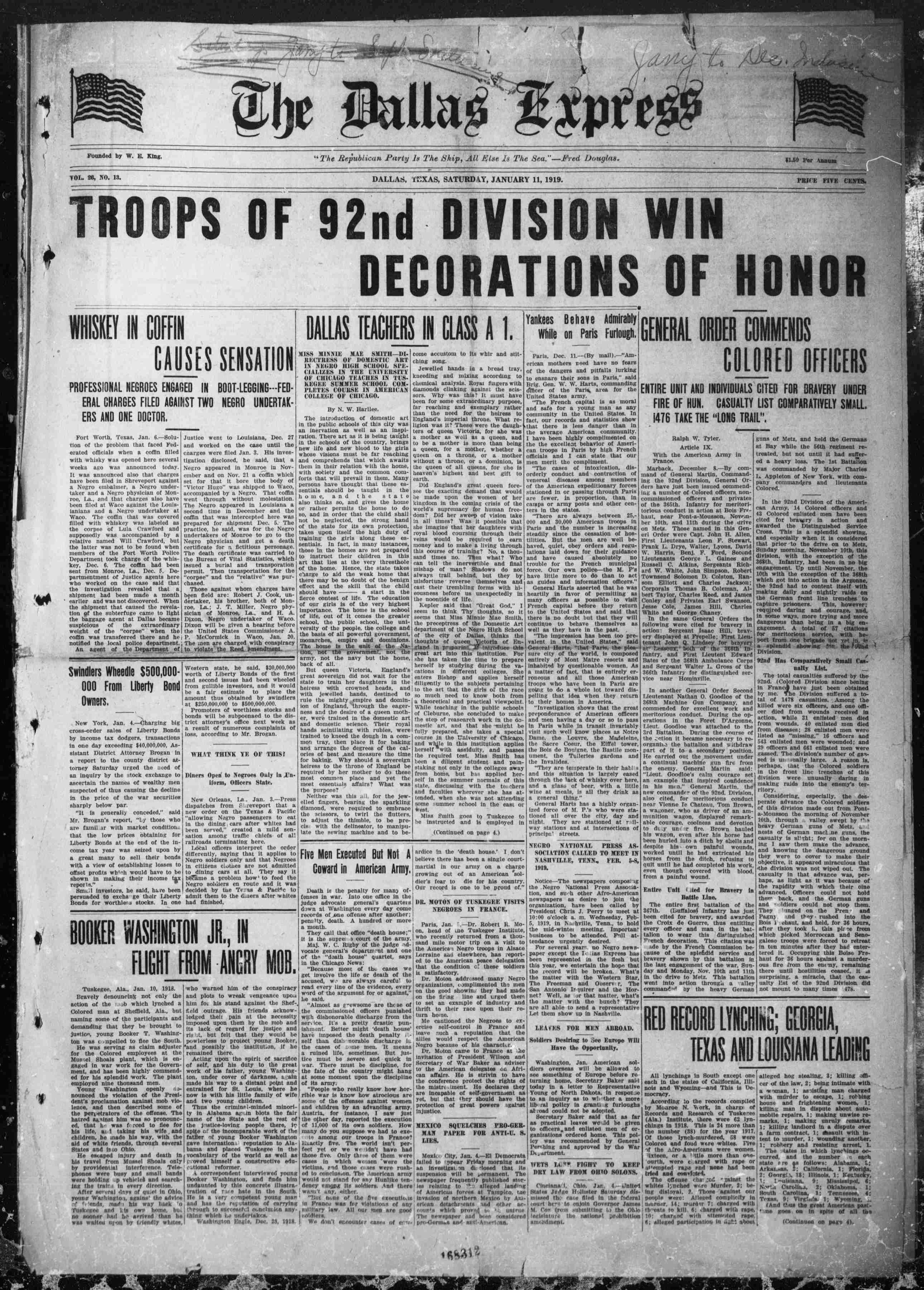 Front page of The Dallas Express, the longest-running African American newspaper in Texas, from January 11, 1919. The top headline trumpets the honors awarded to the 92nd Infantry Division. Below the fold, a different story provides detailed statistics on the skyrocketing rates of murder by lynching.